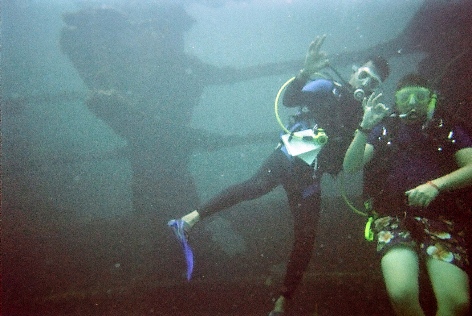 Two divers "ok". Punta Cana, Dominican Republic at a wreck, possibly the Astron